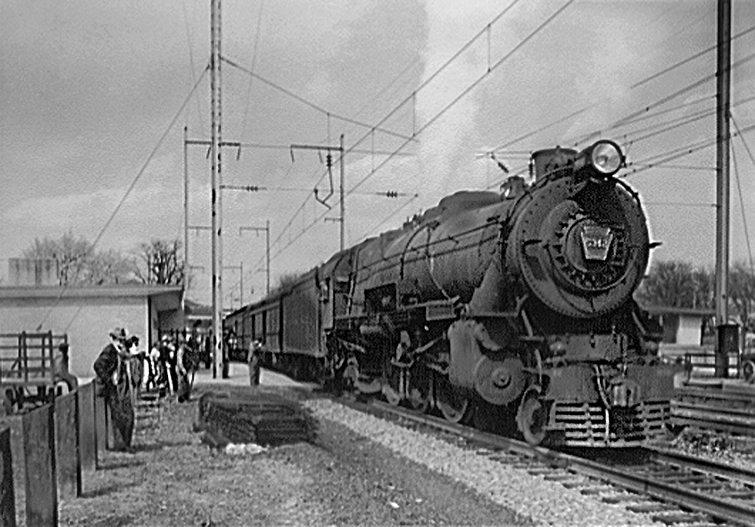 Pennsylvania Railroad K4s steam locomotive calling at Aberdeen.